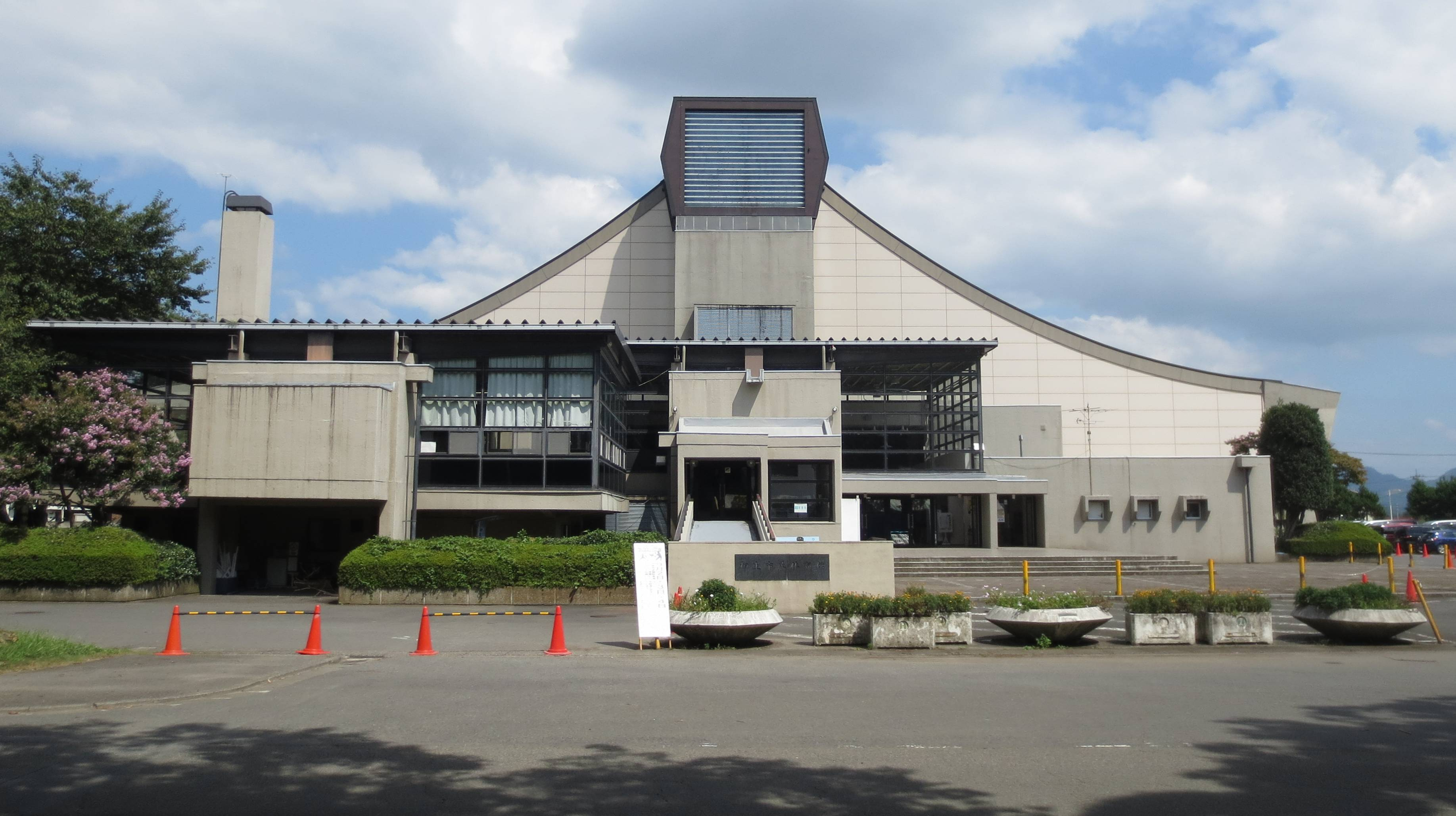 Kiryu Gymnasium.